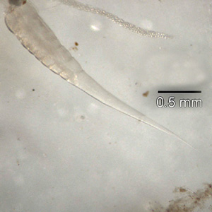 Enterobius vermicularis. Posterior end of the worm in File:Evermicularis SC anterior.jpg. Note the long, slender pointed tail.